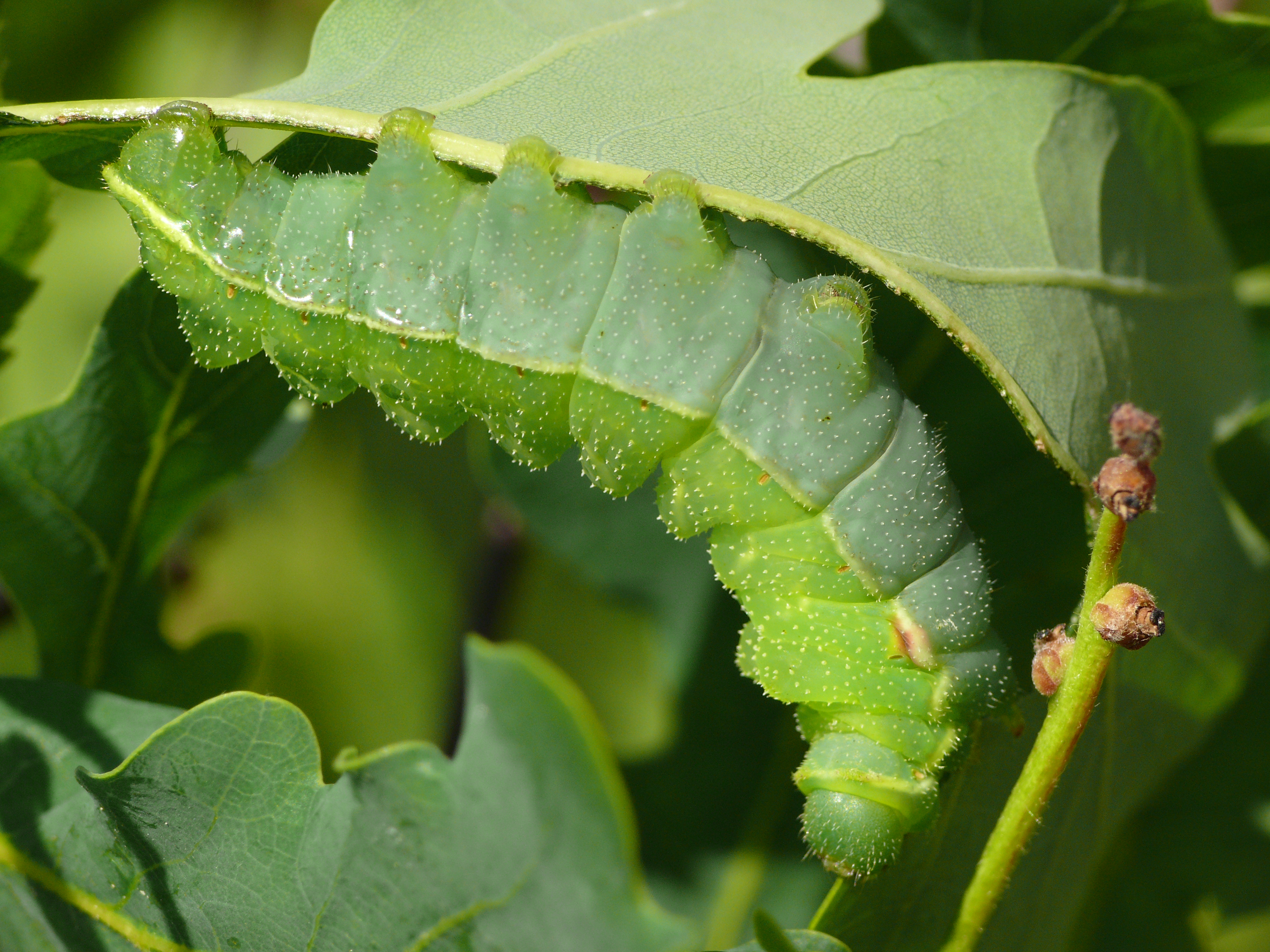 Caterpillar of Tau Emperor (Aglia tau) in forth and last instar (L4).